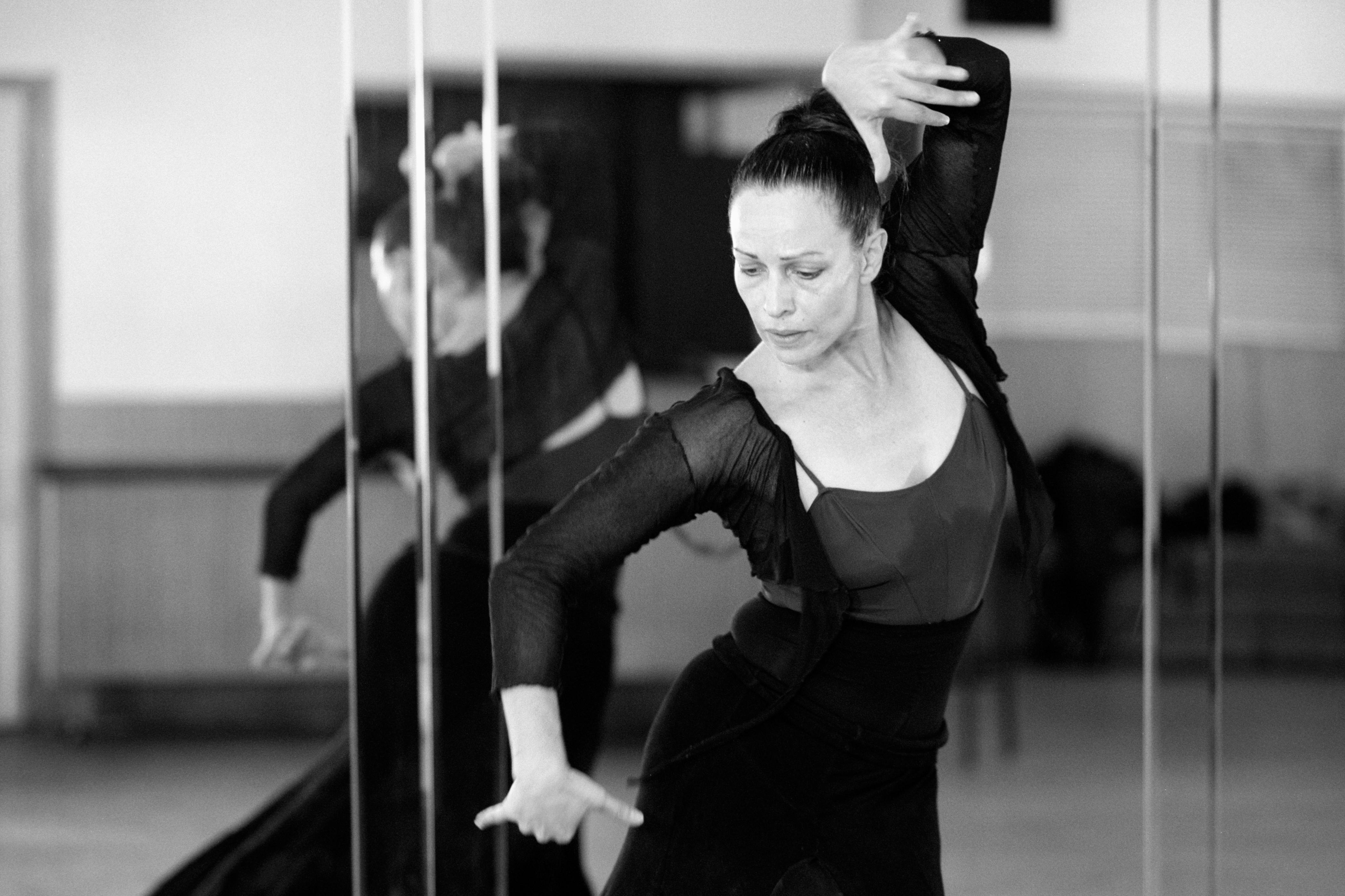 Deborah Greenfield flamenco dancing in Los Angeles, United States in 2004.